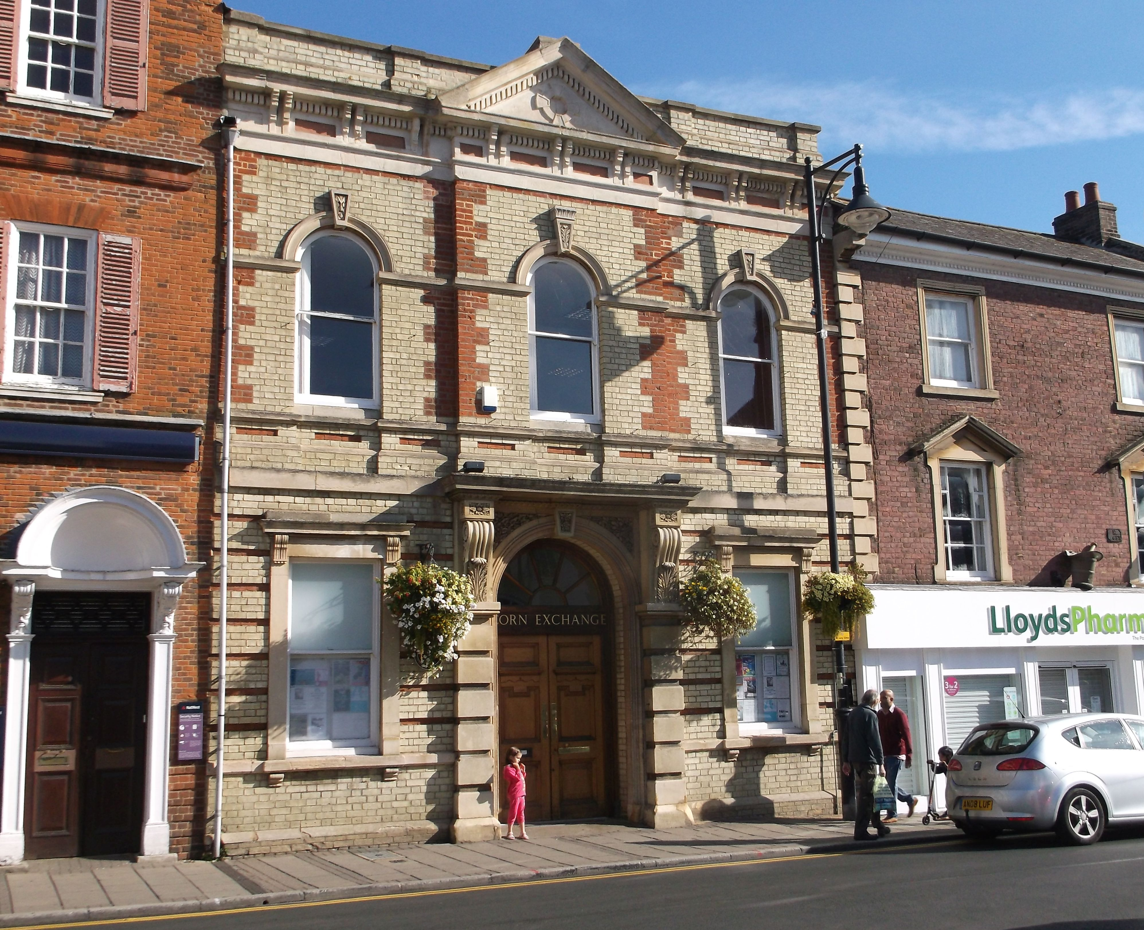 The Corn Exchange, St Ives, Hunts